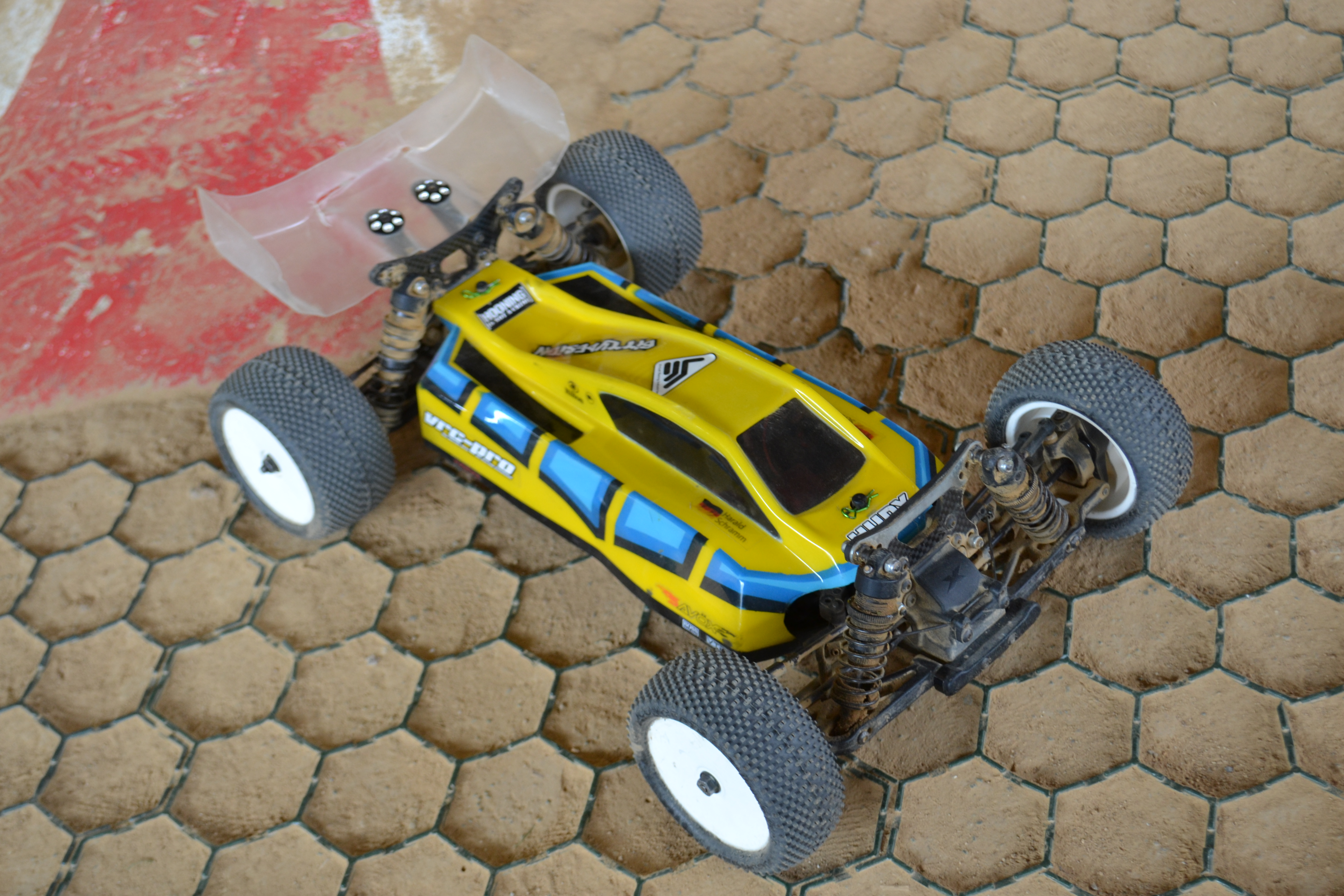 LRP-Offroad-Challenge Buggy 4WD (XRAY XB4)